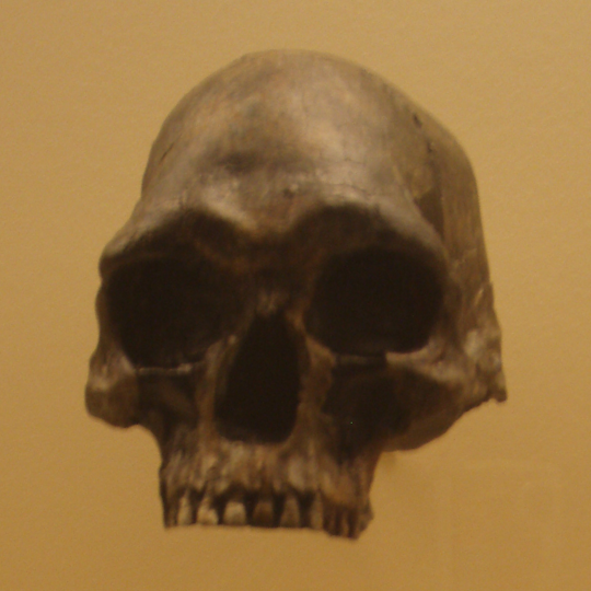 Kow Swamp 1 cast at the Hall of Human Origins, American Museum of Natural History, Smithsonian Institution, Washington, D.C.